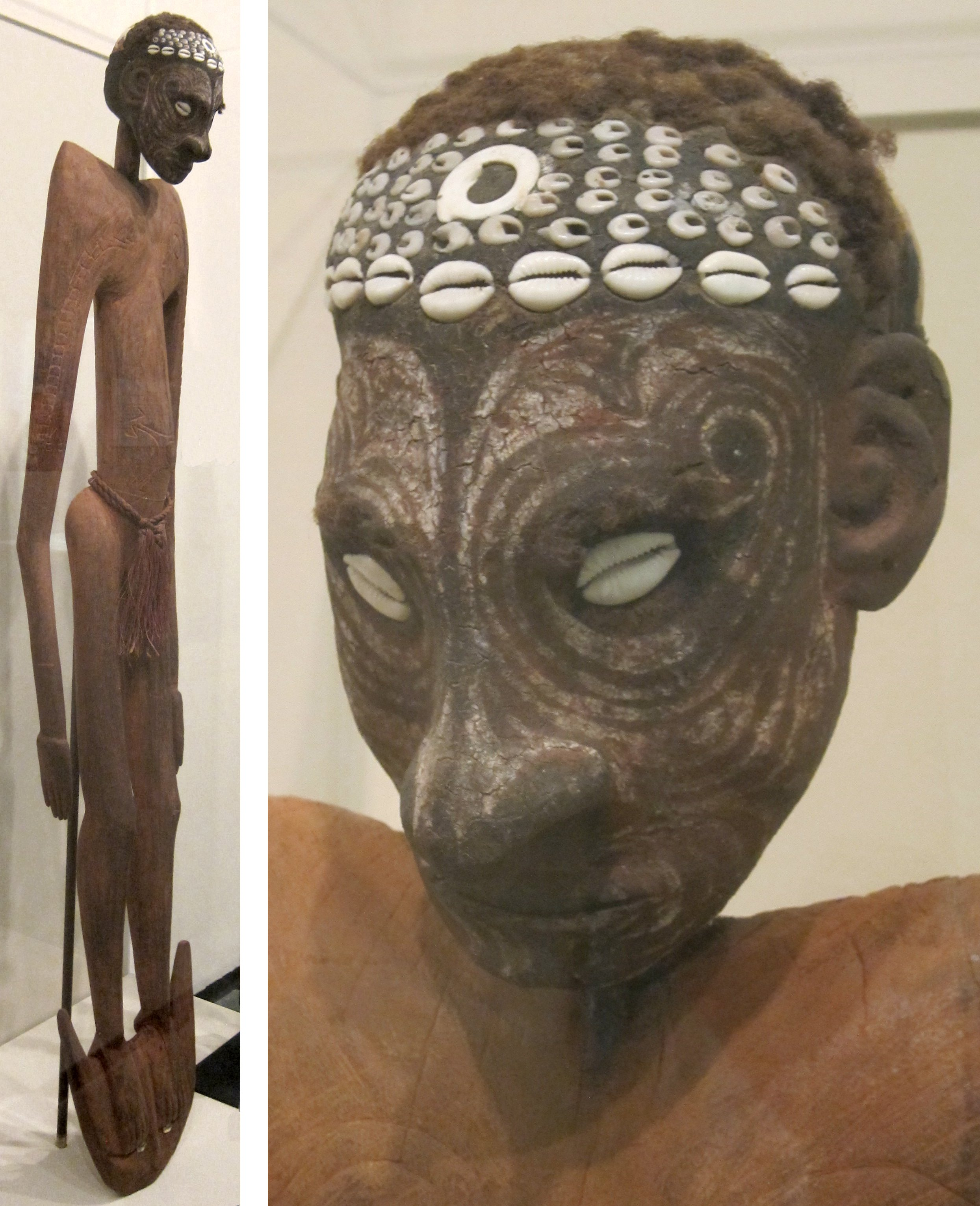 Ancestral hook figure with skull, Papua New Guinea, Middle Sepik, Iatmul people, wood, skull, shells and human hair, Honolulu Academy of Arts